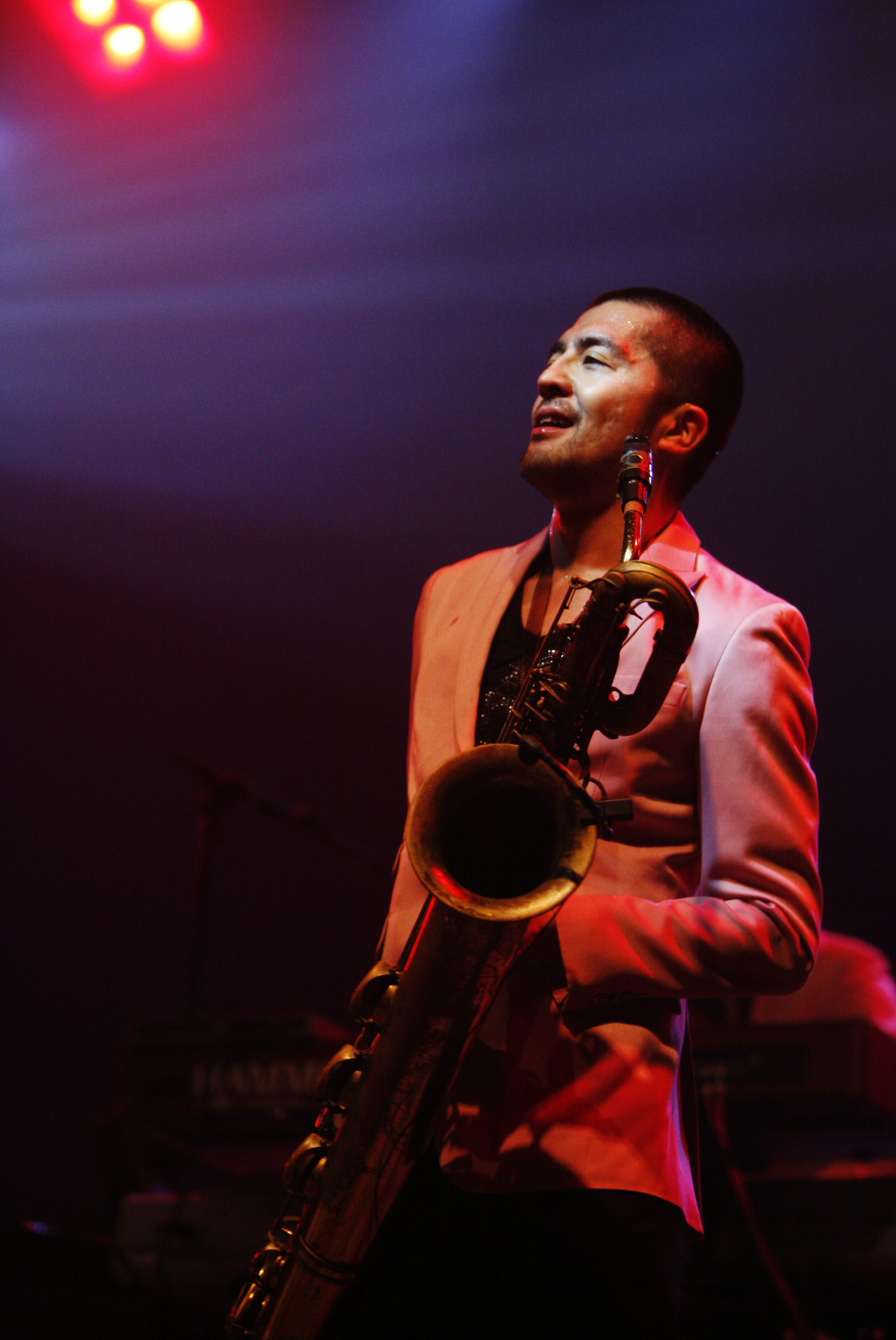 Tokyo Ska Paradise Orchestra at the Eurockéennes of 2007